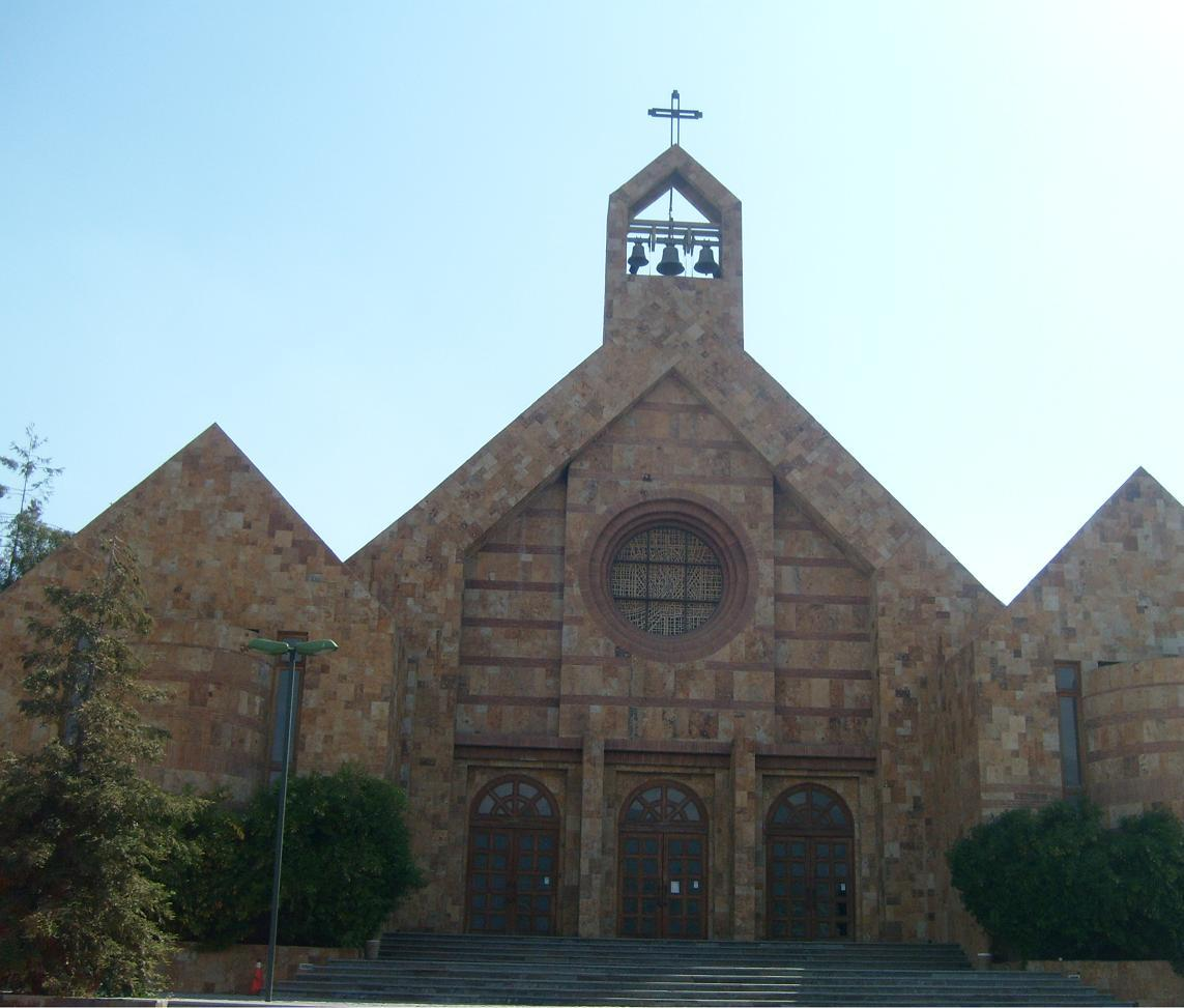 María Madre de Misericordia Church, Camino Real (Lo Barnechea) RM Chile